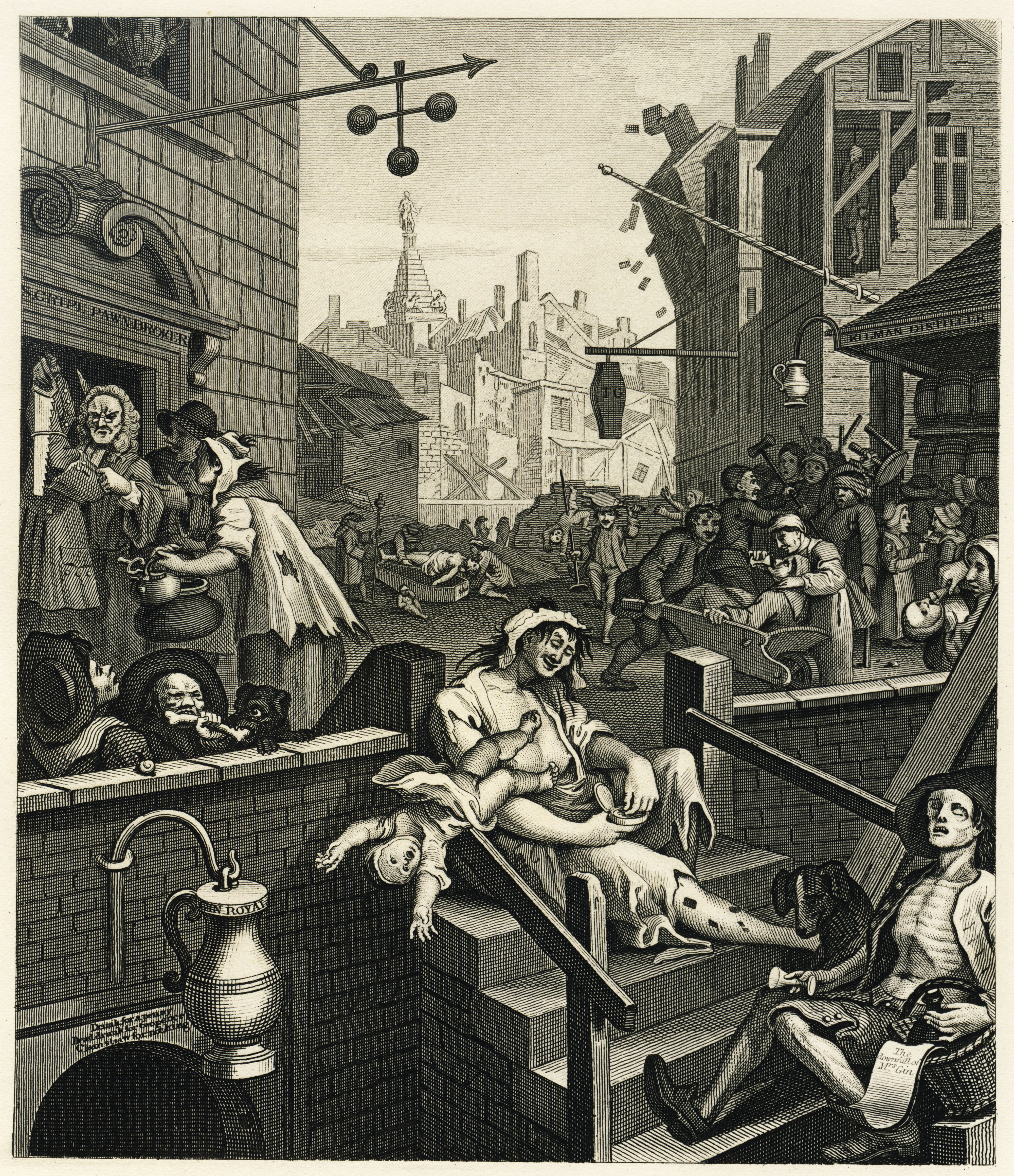 Gin Lane, from Beer Street and Gin Lane The accompanying poem, not printed in this reissue, reads: Gin, cursed Fiend, with Fury fraught, Makes human Race a Prey. It enters by a deadly Draught And steals our Life away. Virtue and Truth, driv'n to Despair Its Rage compells to fly, But cherishes with hellish Care Theft, Murder, Perjury. Damned Cup! that on the Vitals preys That liquid Fire contains, Which Madness to the heart conveys, And rolls it thro' the Veins.